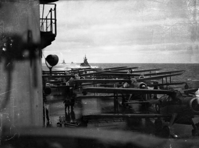 View from the search-light platform overlooking the flight deck of the Royal Navy aircraft carrier HMS Victorious (R38), showing the strike force of twelve Fairey Albacores of 832 or 817 Squadron, Fleet Air Arm loaded with torpedoes to strike at the Tirpitz when she was at sea off the coast of Norway.